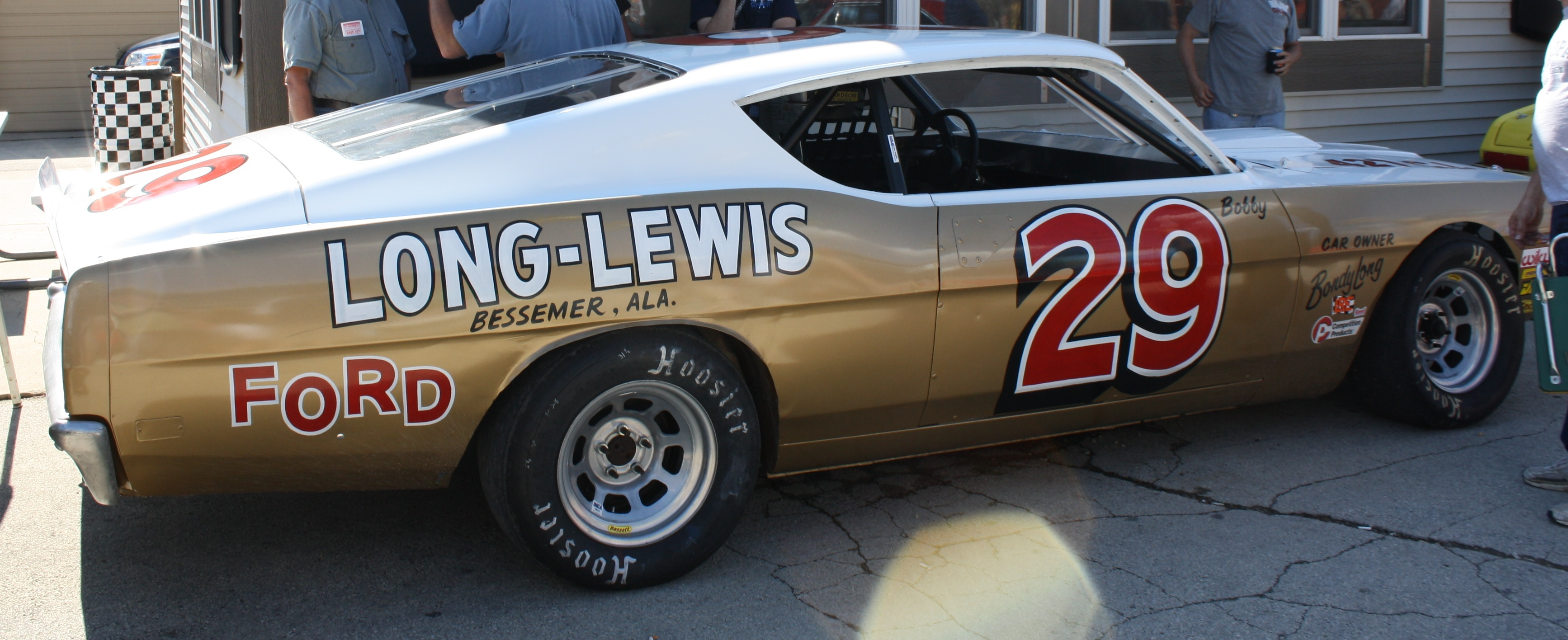 Unknown if this is a replica or the original Bobby Allison #29 Long Lewis Ford NASCAR racecar. Allison drove for Long only during the 1968 Grand National (now Sprint Cup Series) season .